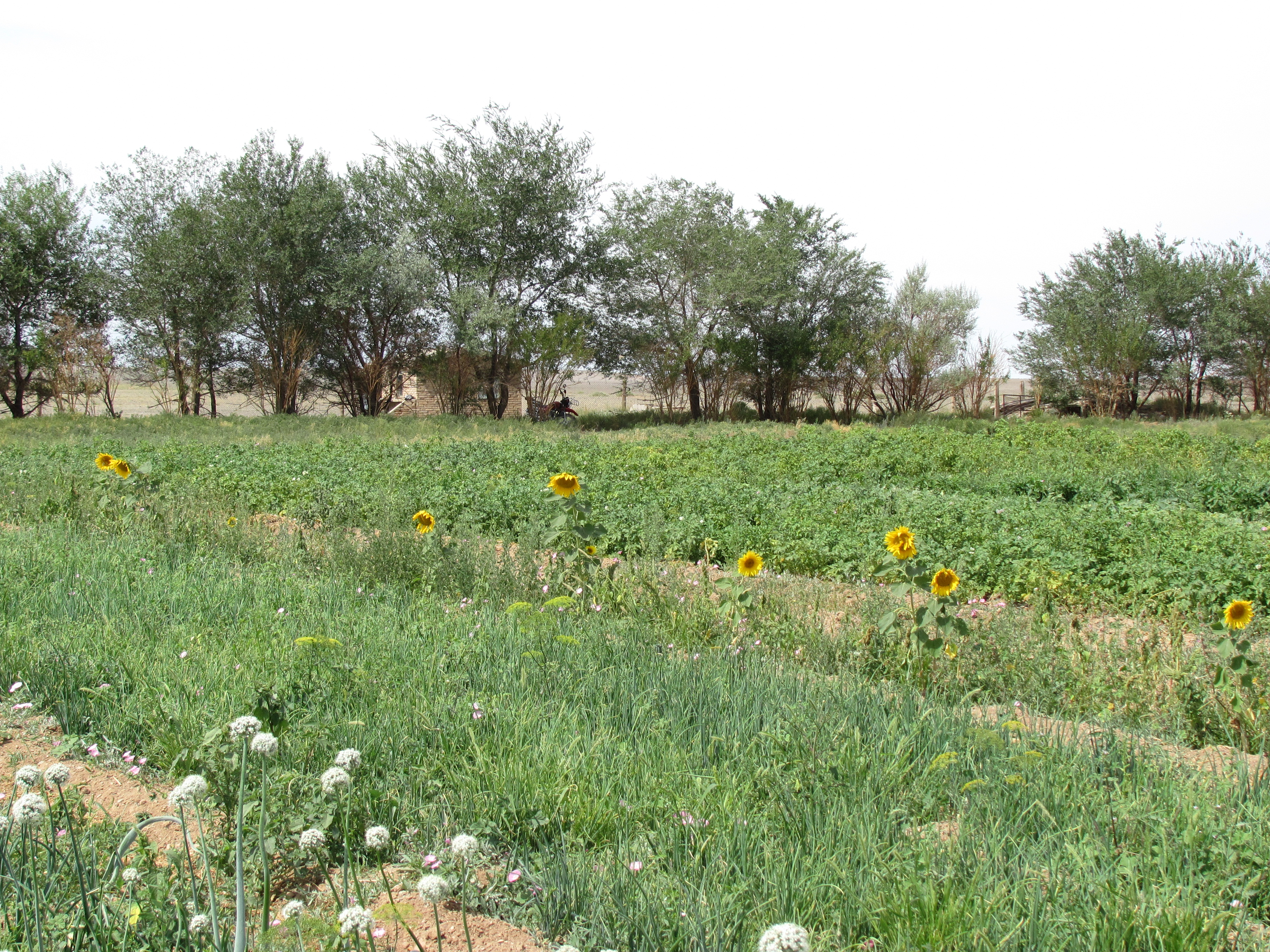 Oasis Dal, Ömnögöv Aimag. Mongolia.